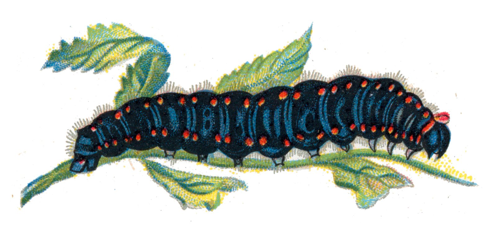 caterpillar of Parnassius apollo